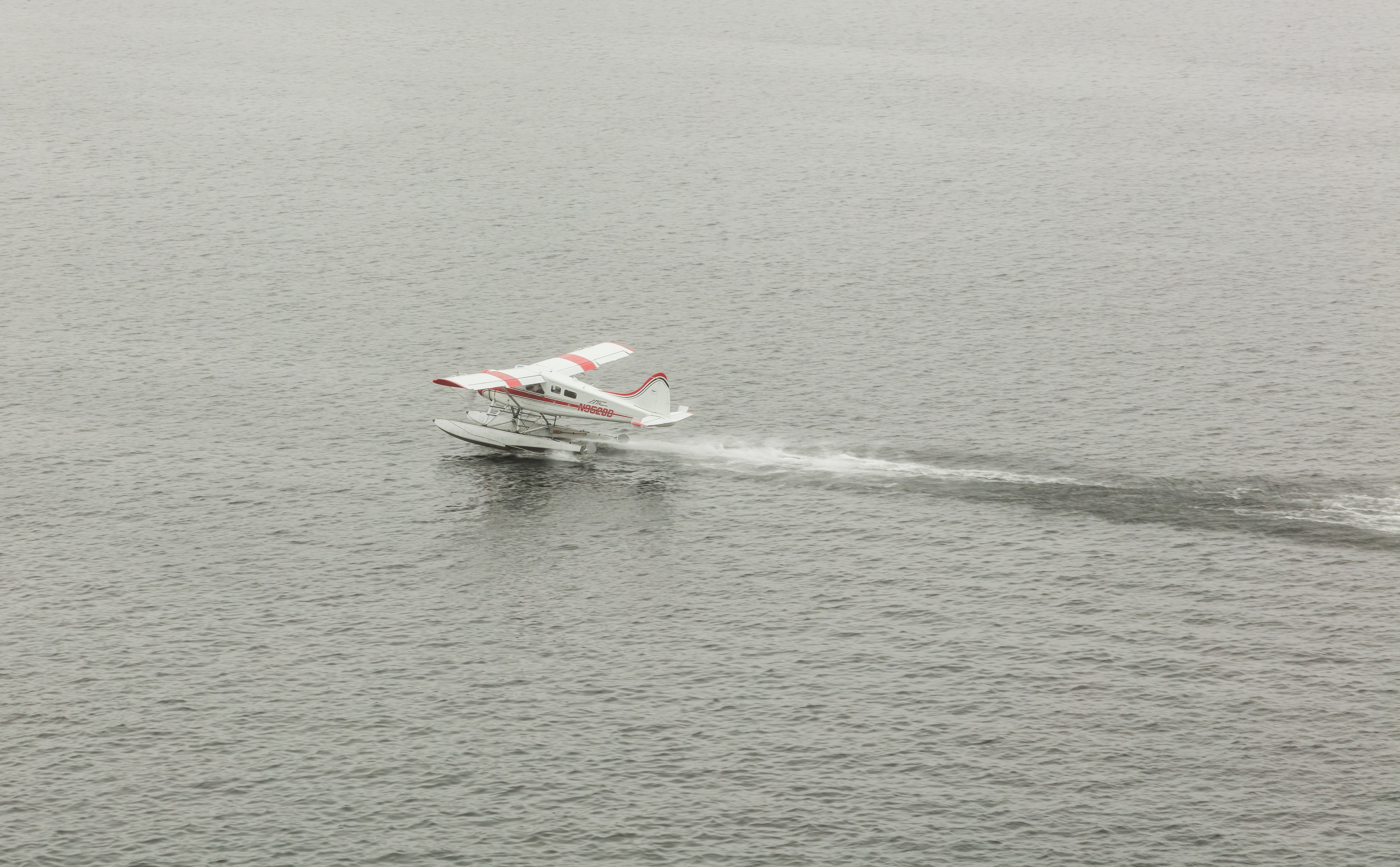 De Havilland Canada DHC-2 Beaver, Ketchikan, Alaska, United States